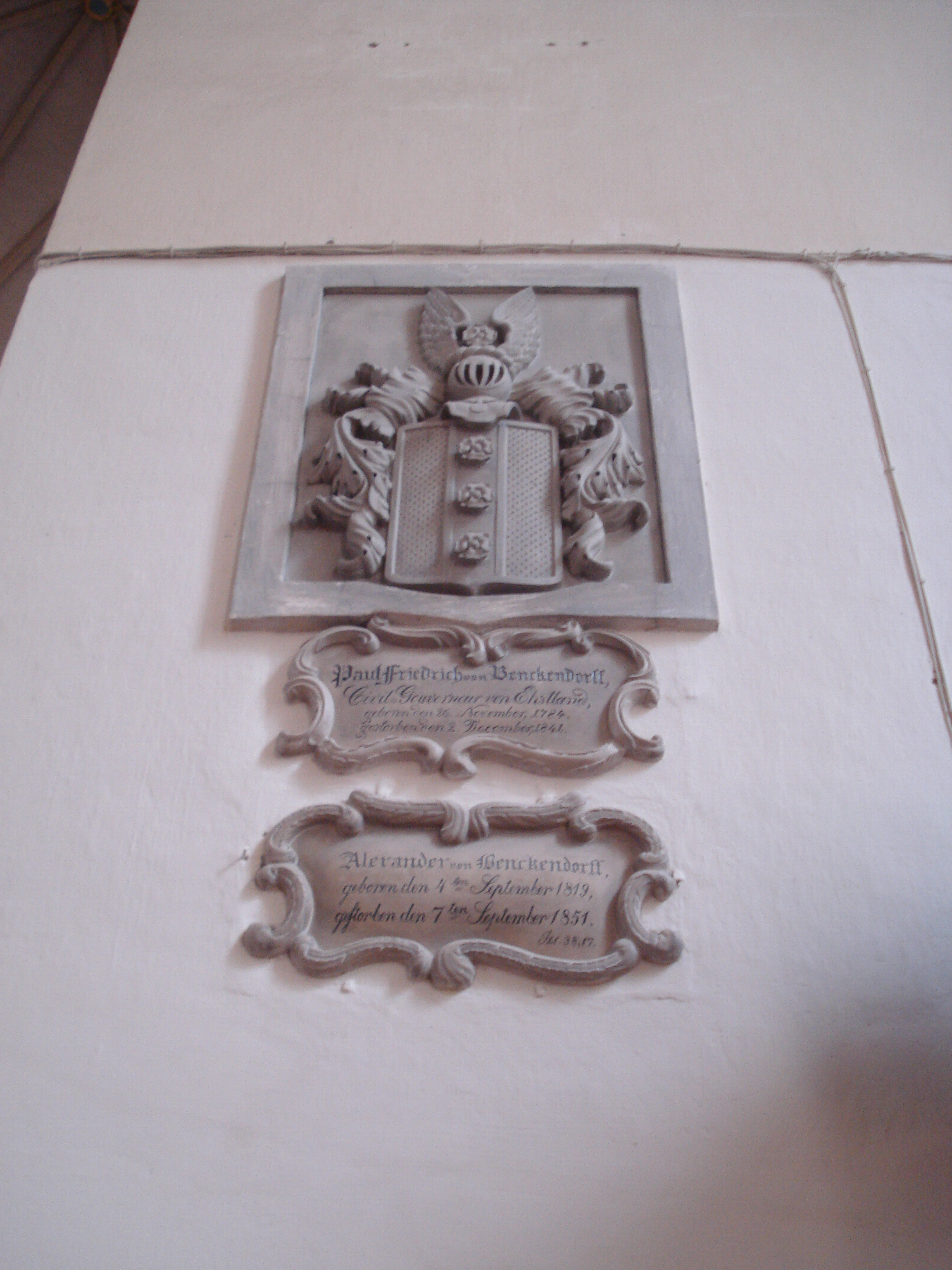 St. Olaf's church in Tallinn. Ceiling. The epitaphs of Paul Friedrich von Benckendorf and Alexander von Benckendorf